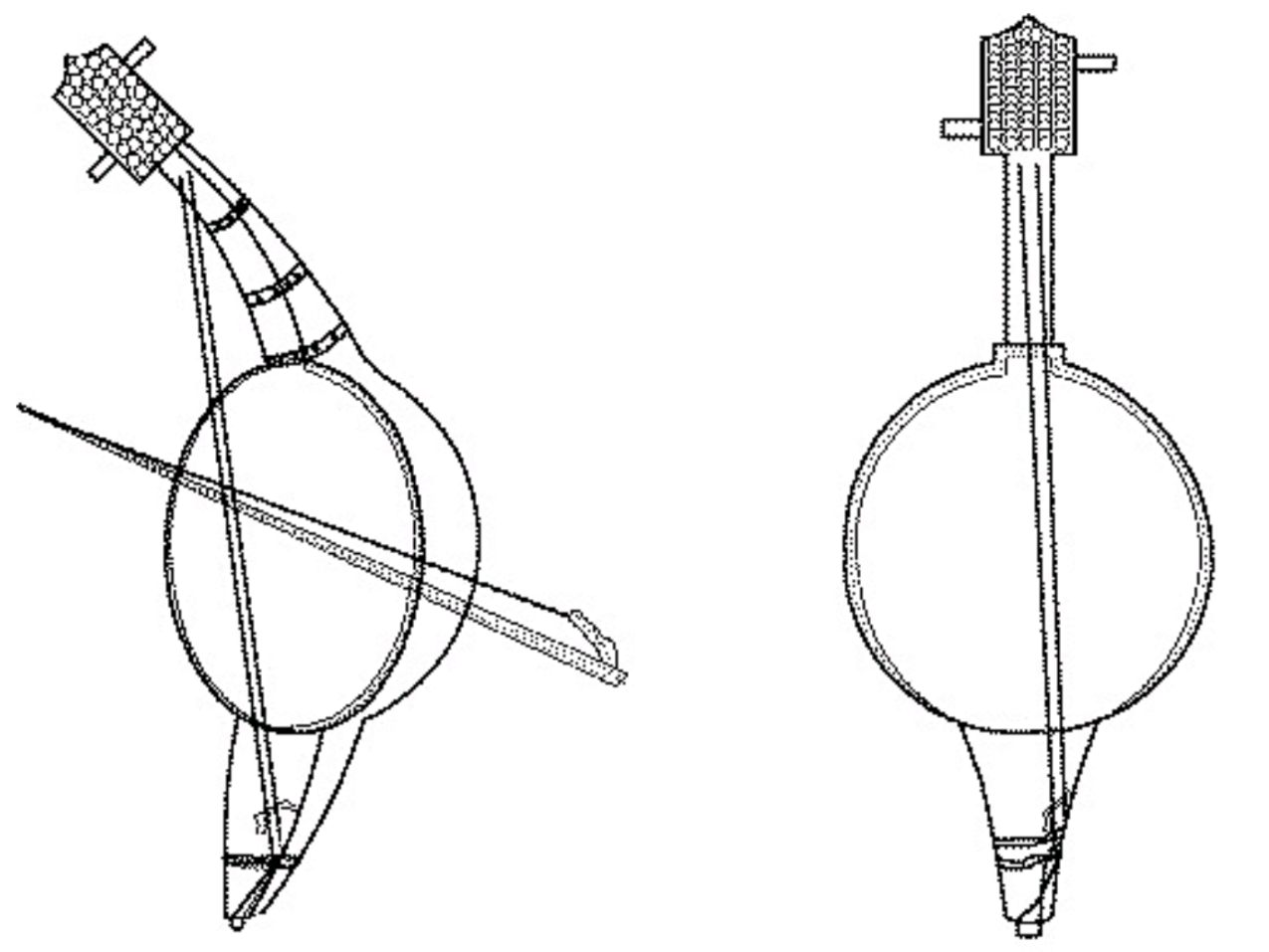 A picture of Tatar qylqubız